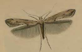 Stainton’s Natural History of the Tineina (1855–1873): Epermenia aequidentellus